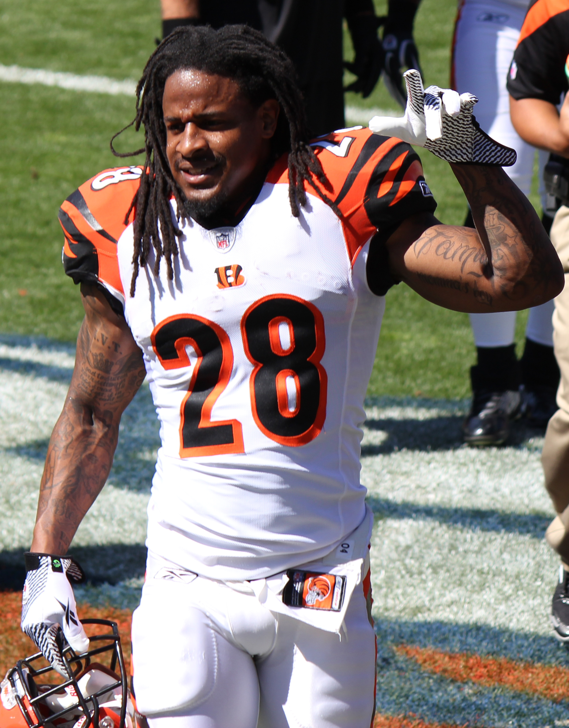 Bernard Scott, a National Football League player.